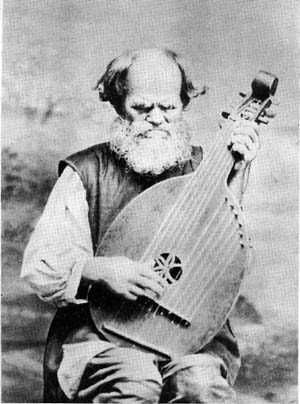 Kobzar Ostap Veresai. Kobzar Ostap Veresai - One of the finest exponents of Dumy in the 19th century. Ostap Veresai. Ostap Veresai playing the kobza (Bandura).